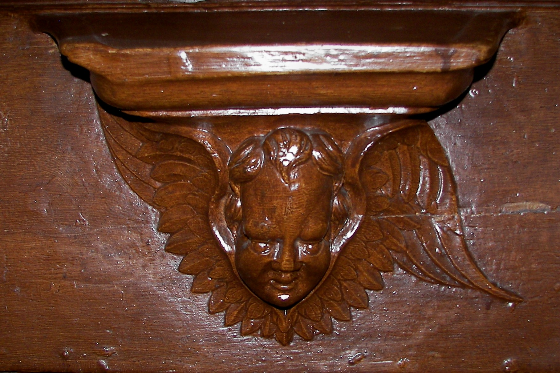 Misericord from Saint-Pierre Church in Maintenon (Eure et Loir/FRANCE)